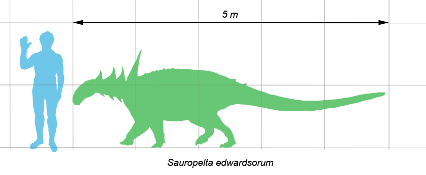 Scale chart for Sauropelta, based on a skeletal diagram by Gregory Paul.